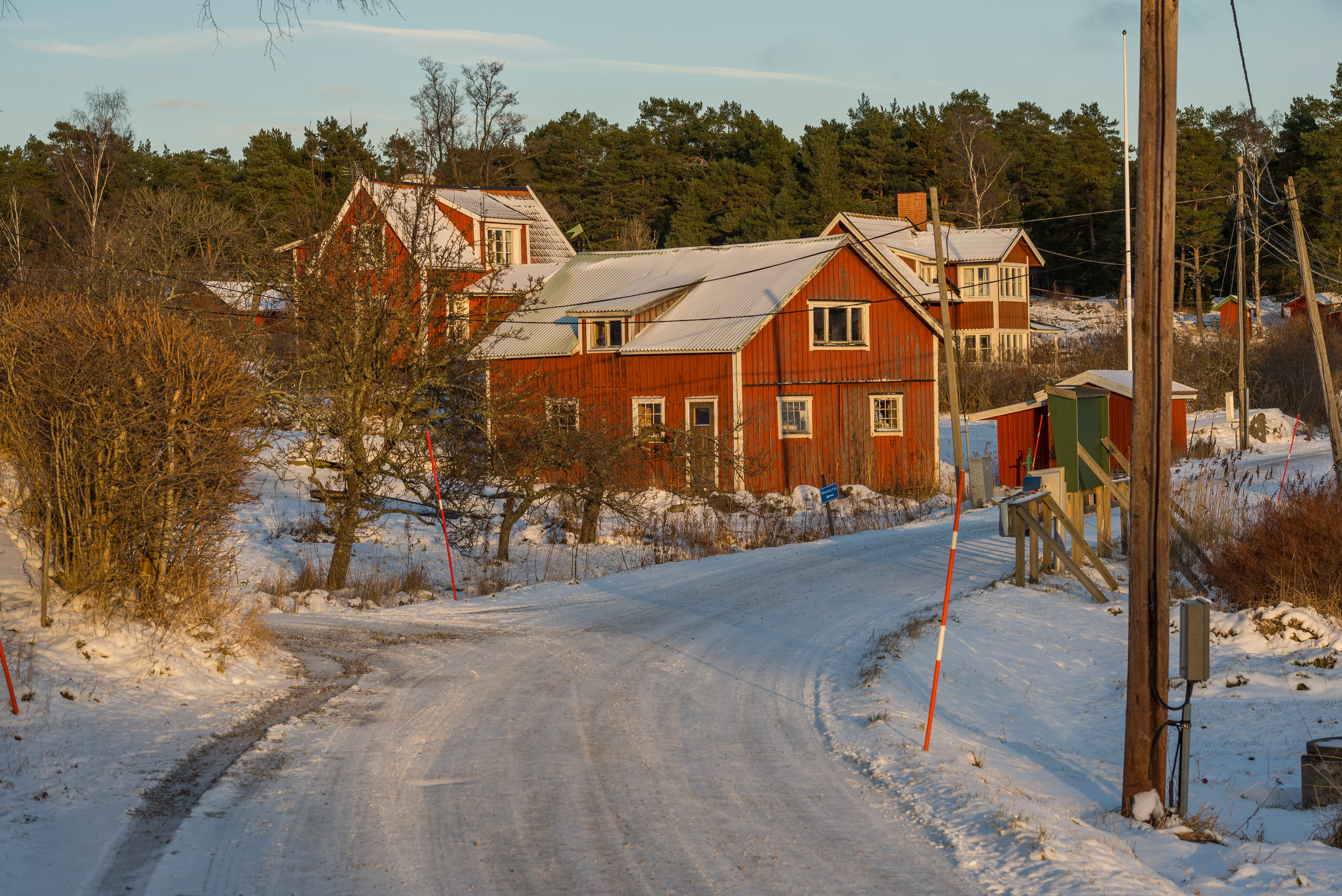 Ramsmora village at Möja island, Stockholm archipelago.